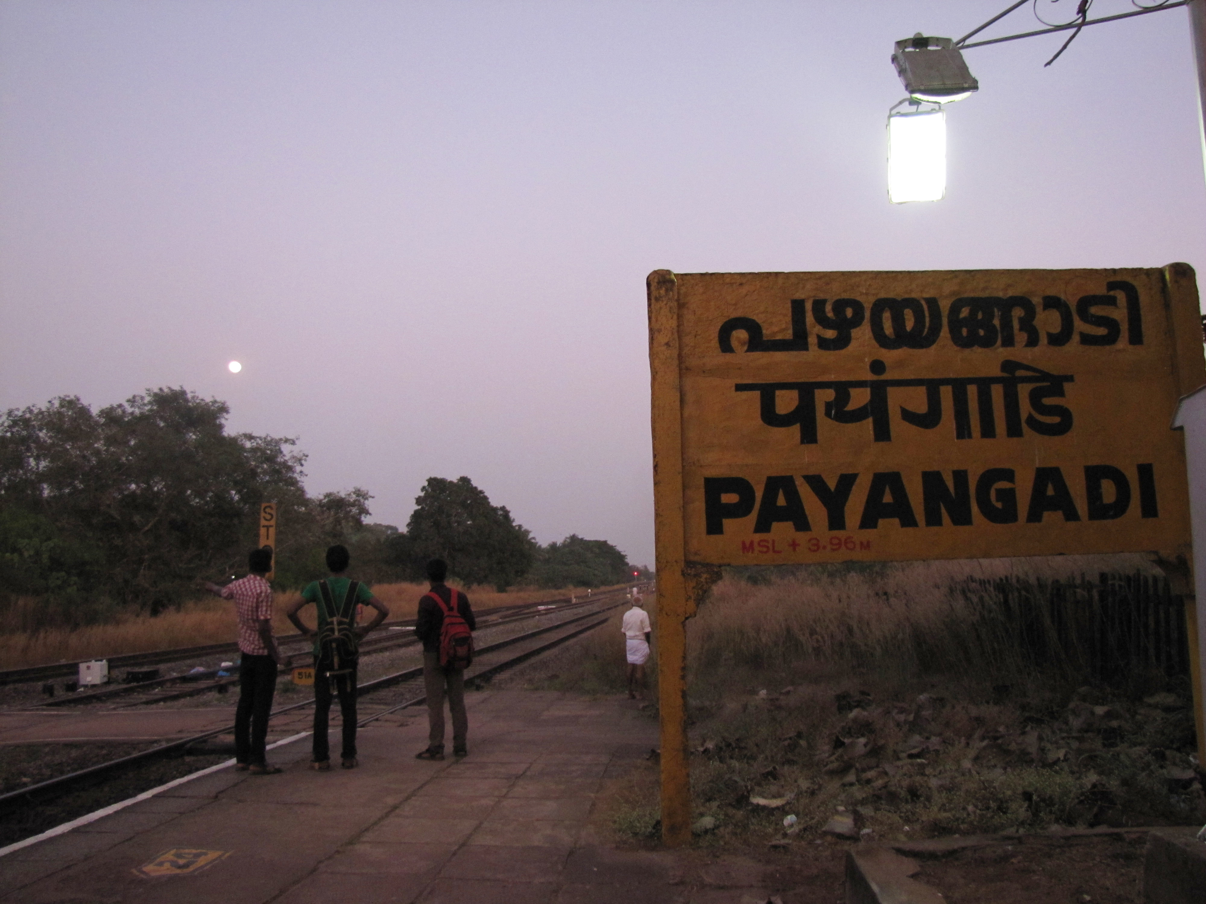 Payangadi Railway Station Board on a full moon evening.